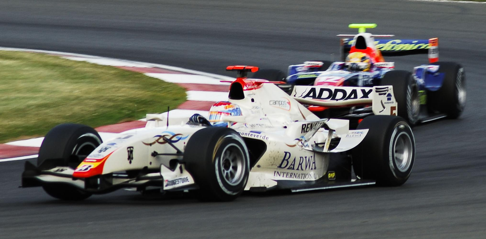 Vitaly Petrov (Campos) and Giorgio Pantano (Racing Engineering) at the Silverstone round of the 2008 GP2 Series season.